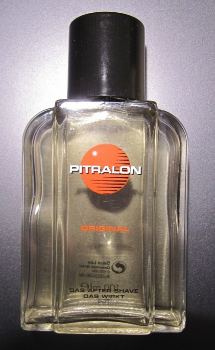 Pitralon After Shave, Austrian Version. Own Picture.